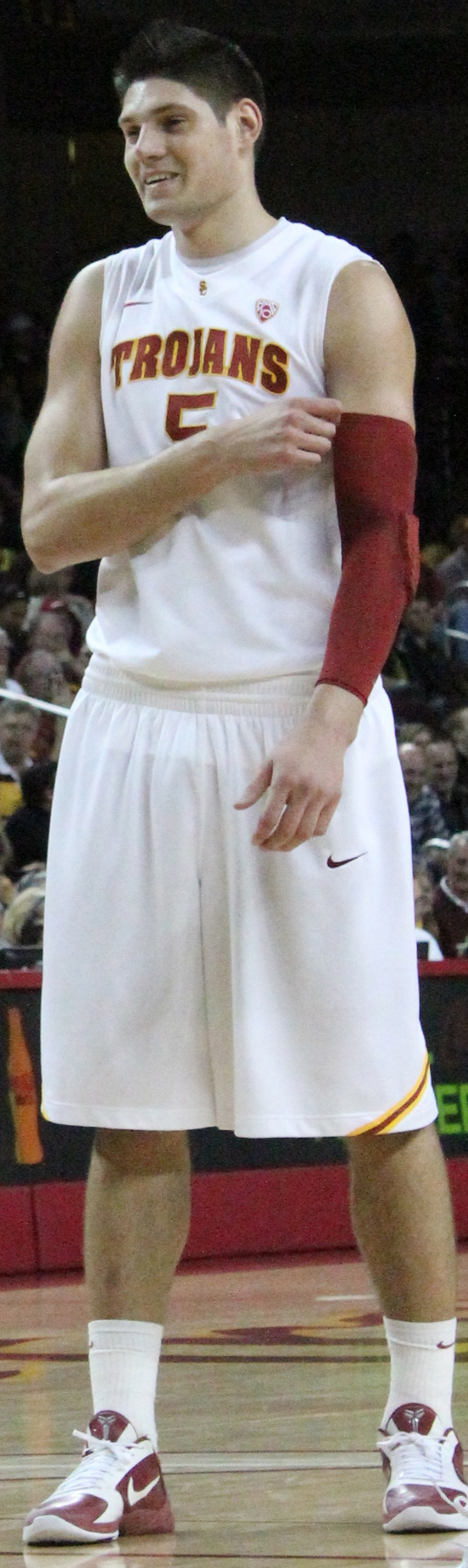 Nikola Vucevic playing for USC Trojans